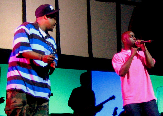 The crowd went nuts when De La Soul took the stage for "Feel Good Inc."